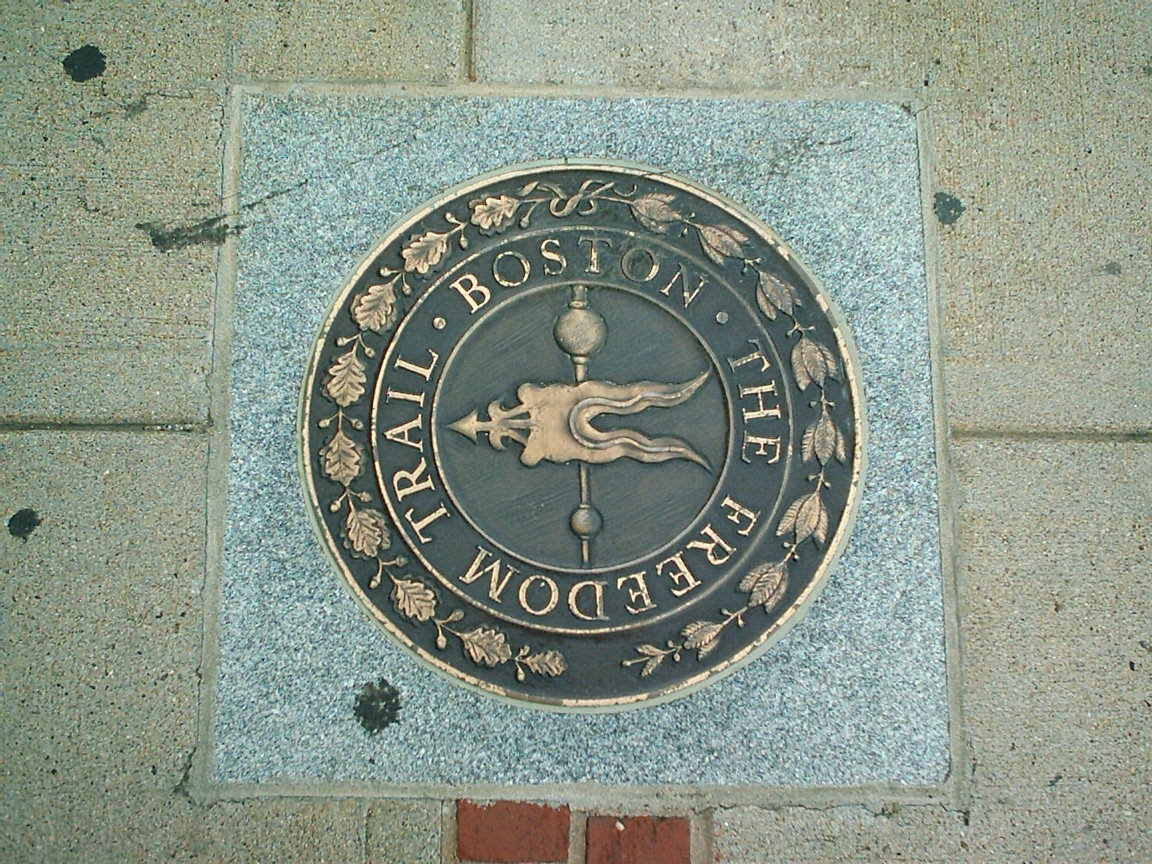 The Freedom Trail's insignia